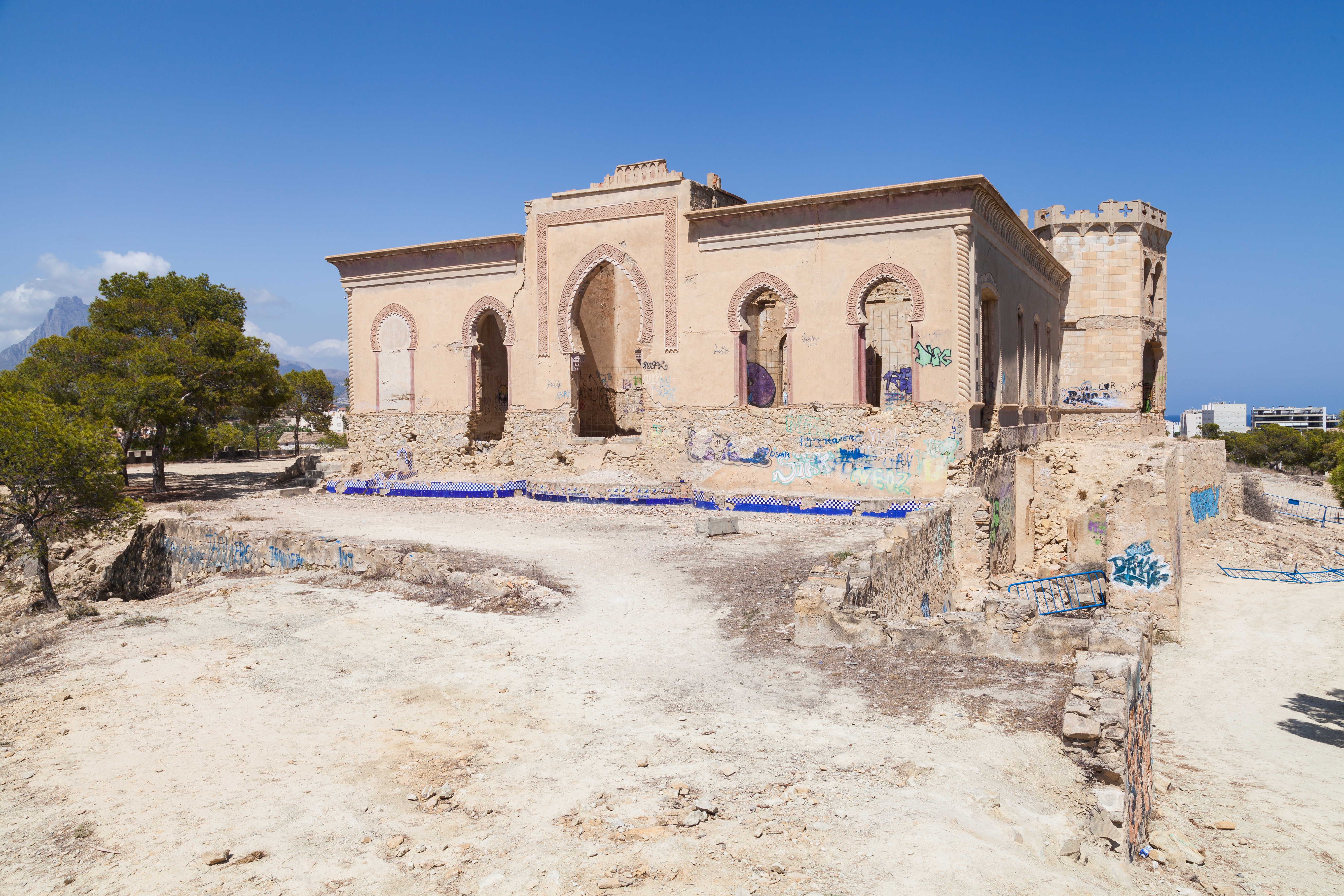 Malladeta House, Villajoyosa, Spain